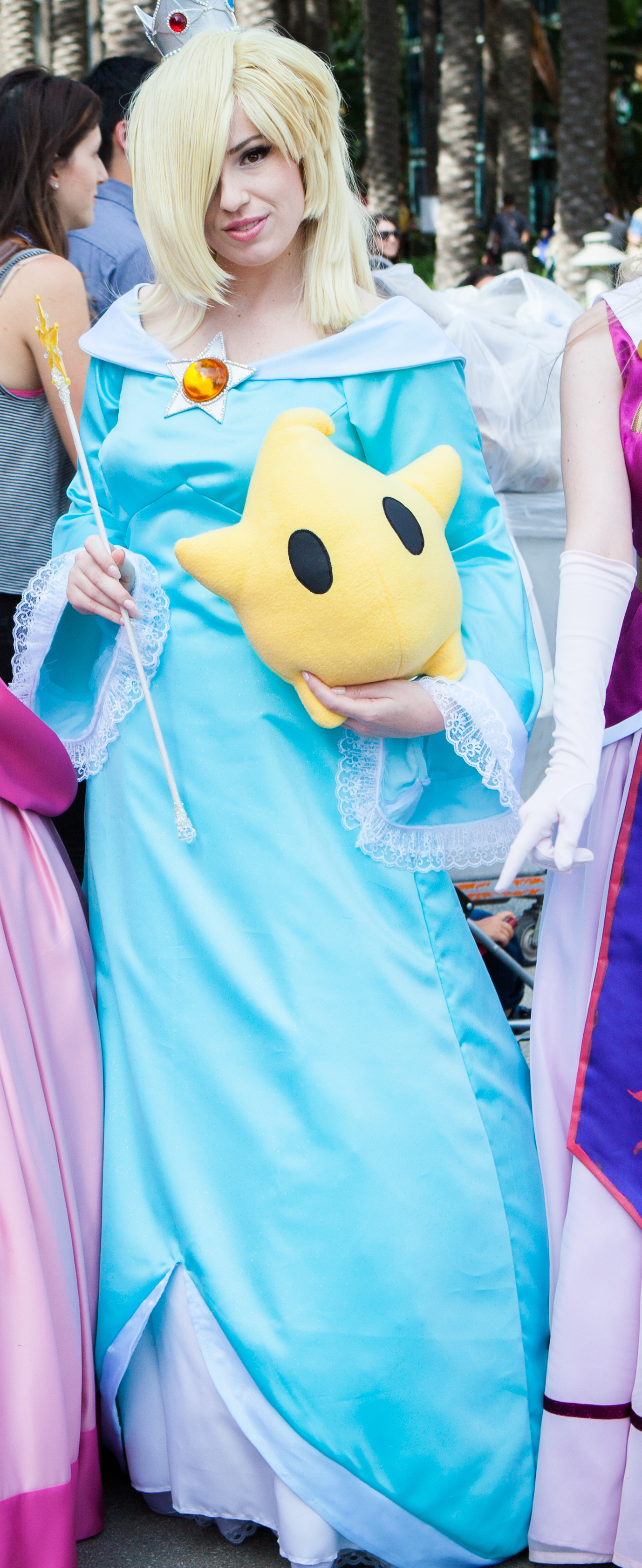 Wondercon 2015-7228